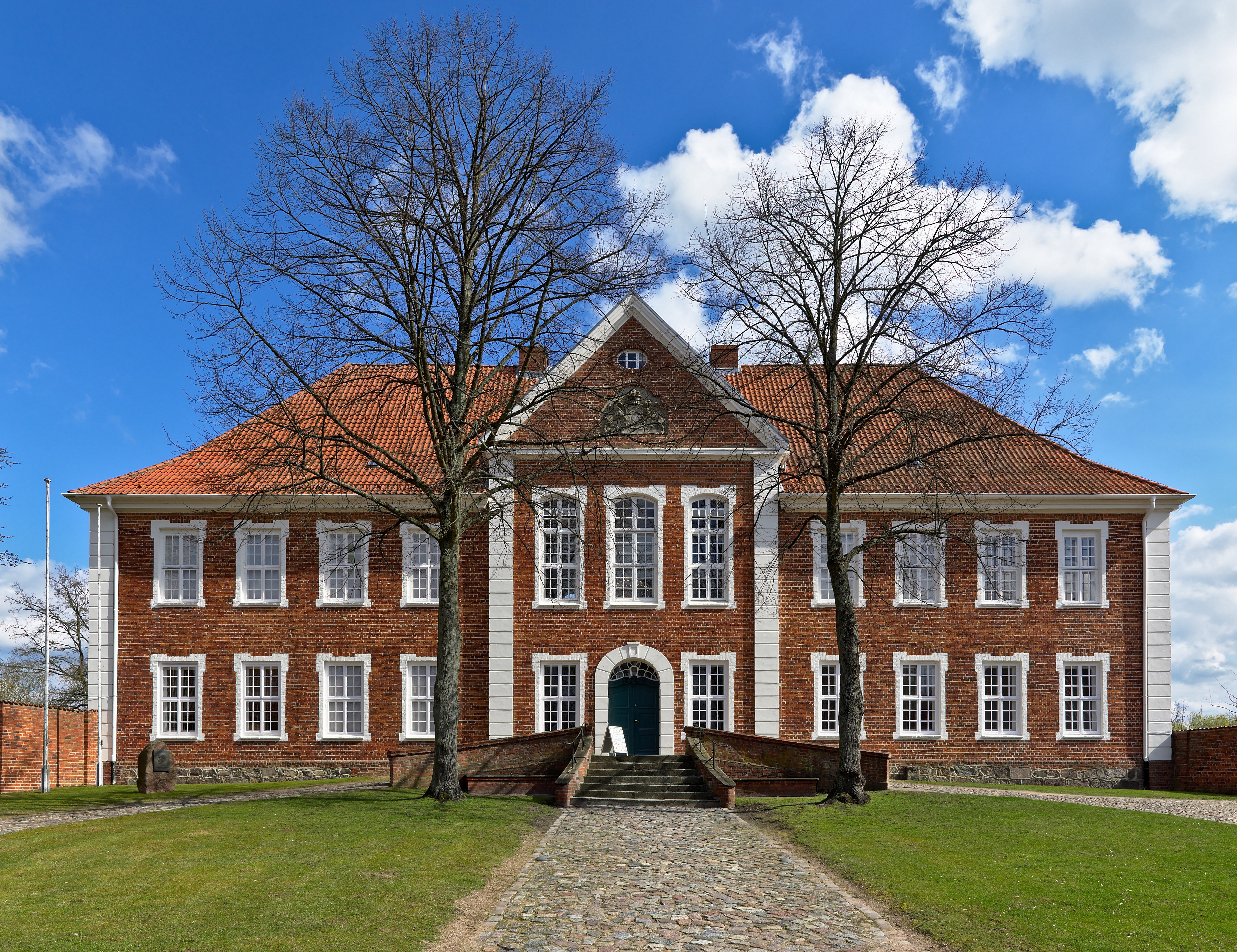 Manor house of the Dukes of Mecklenburg, Ratzeburg.